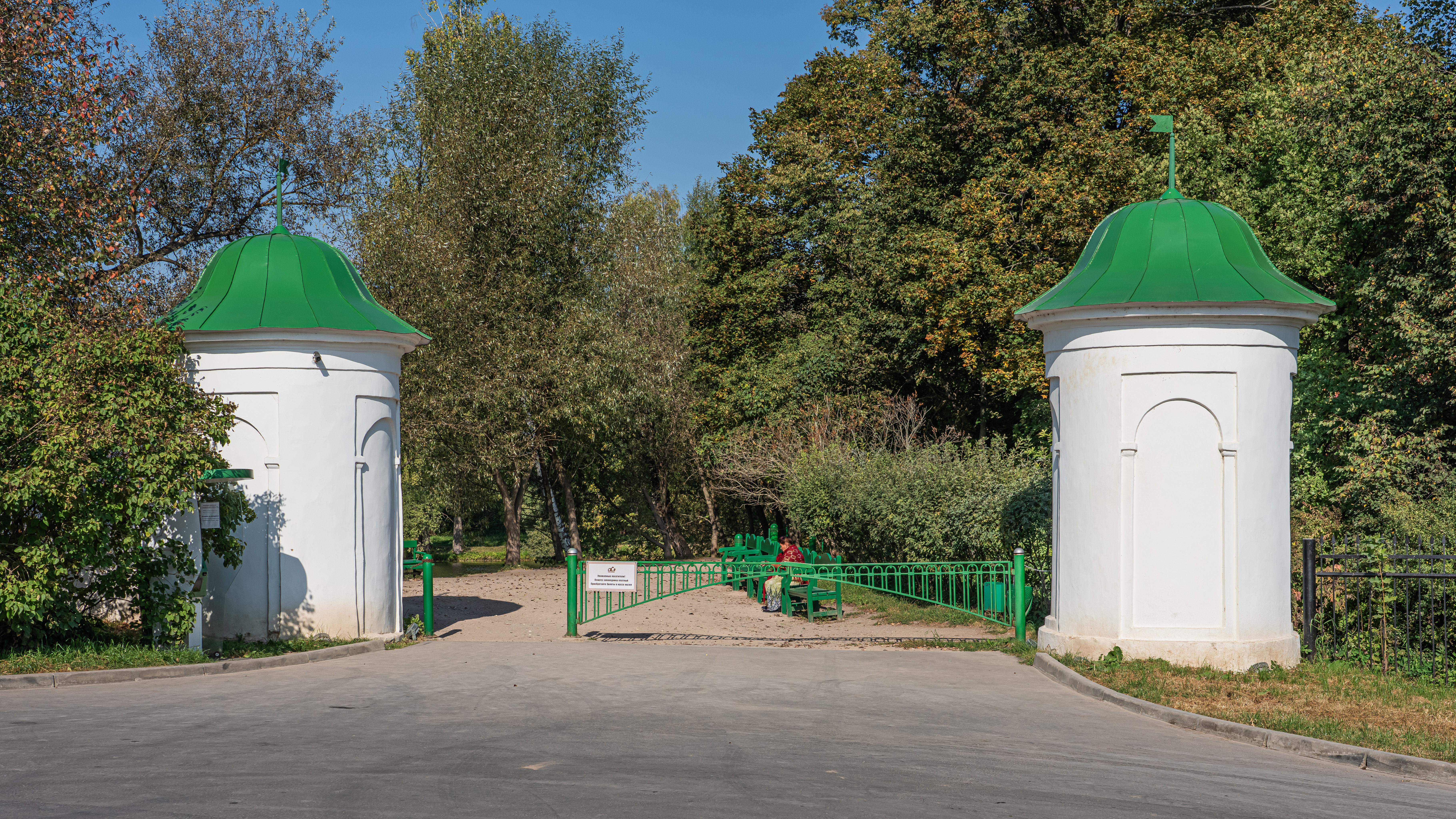 Gate towers in Yasnaya Polyana estate near Tula, Russia